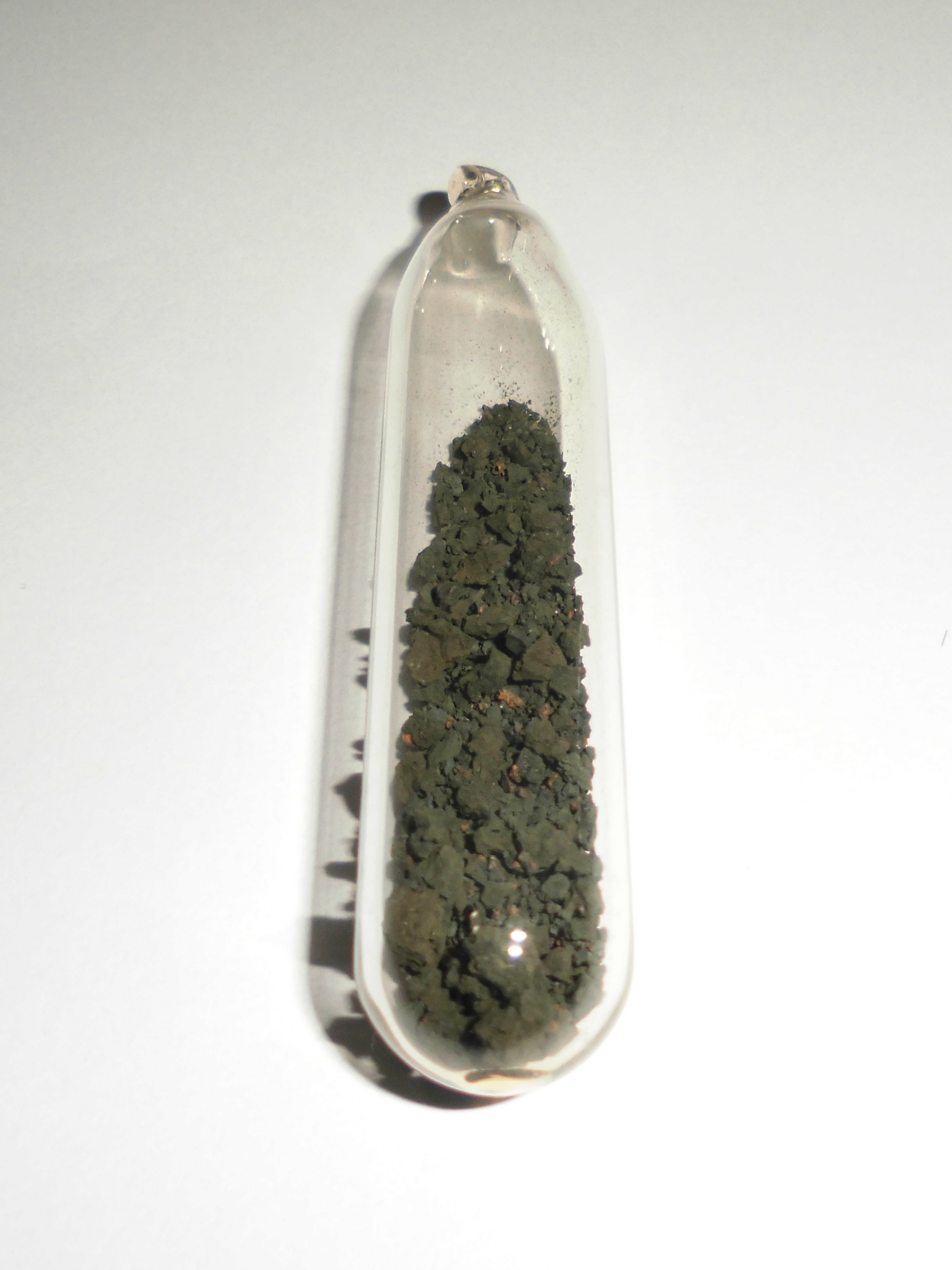 Triuranium octoxide prepared by heating ammonium diuranate. 3.0 grams